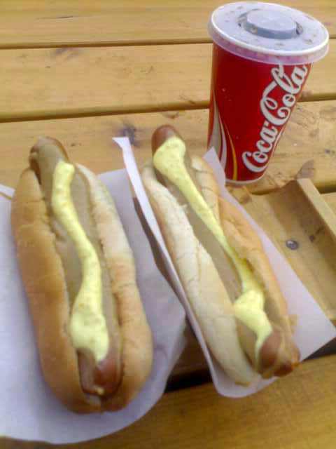 Bæjarins Beztu Pylsur, known as the best hot dog stand in Reykjavik.